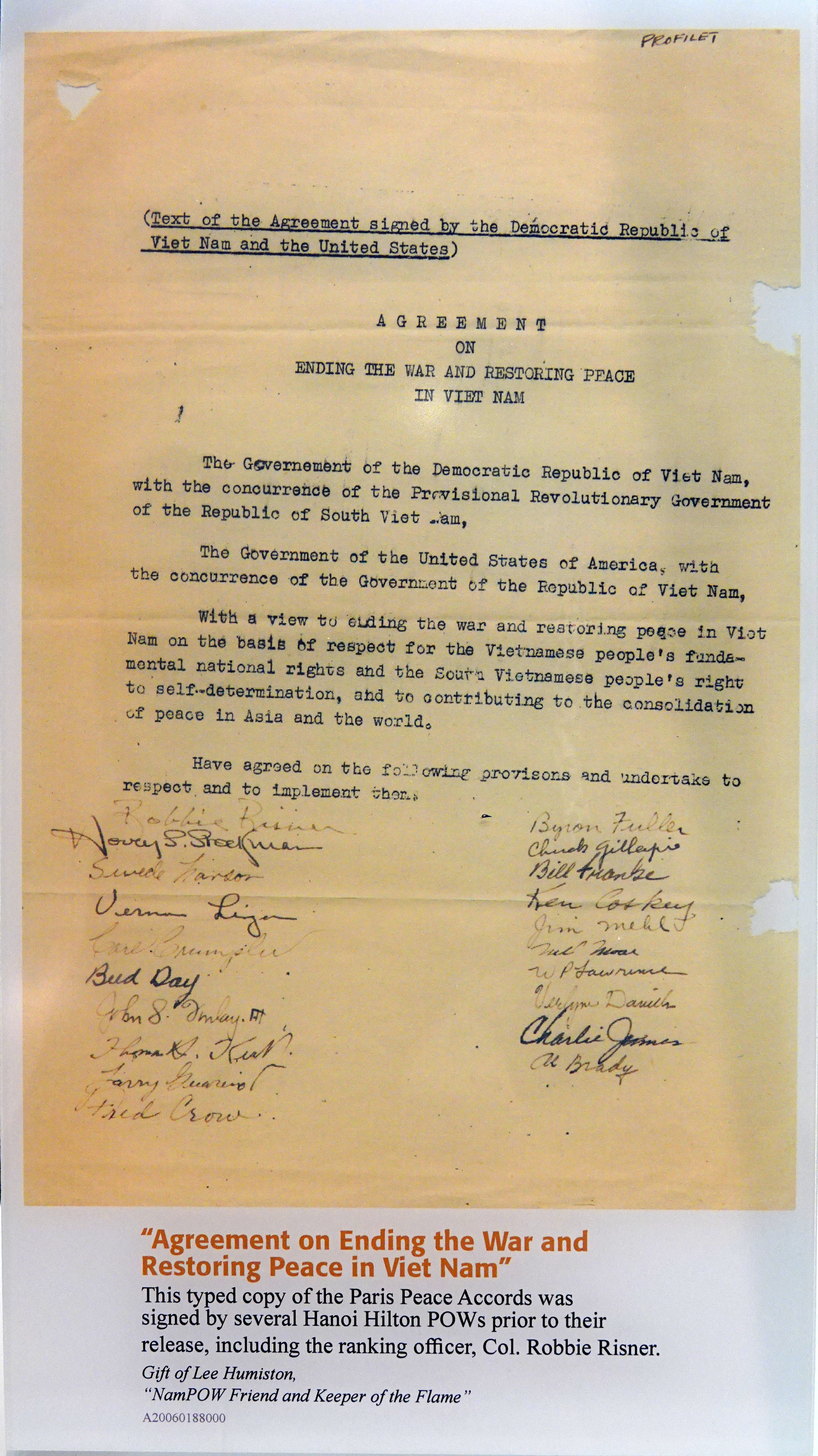 Picture of the "Agreement" copy on ending war and restoring peace in Vietnam. Picture taken at the National Air and Space Museum's Steven F. Udvar-Hazy Center in Chantilly, Virginia, USA.